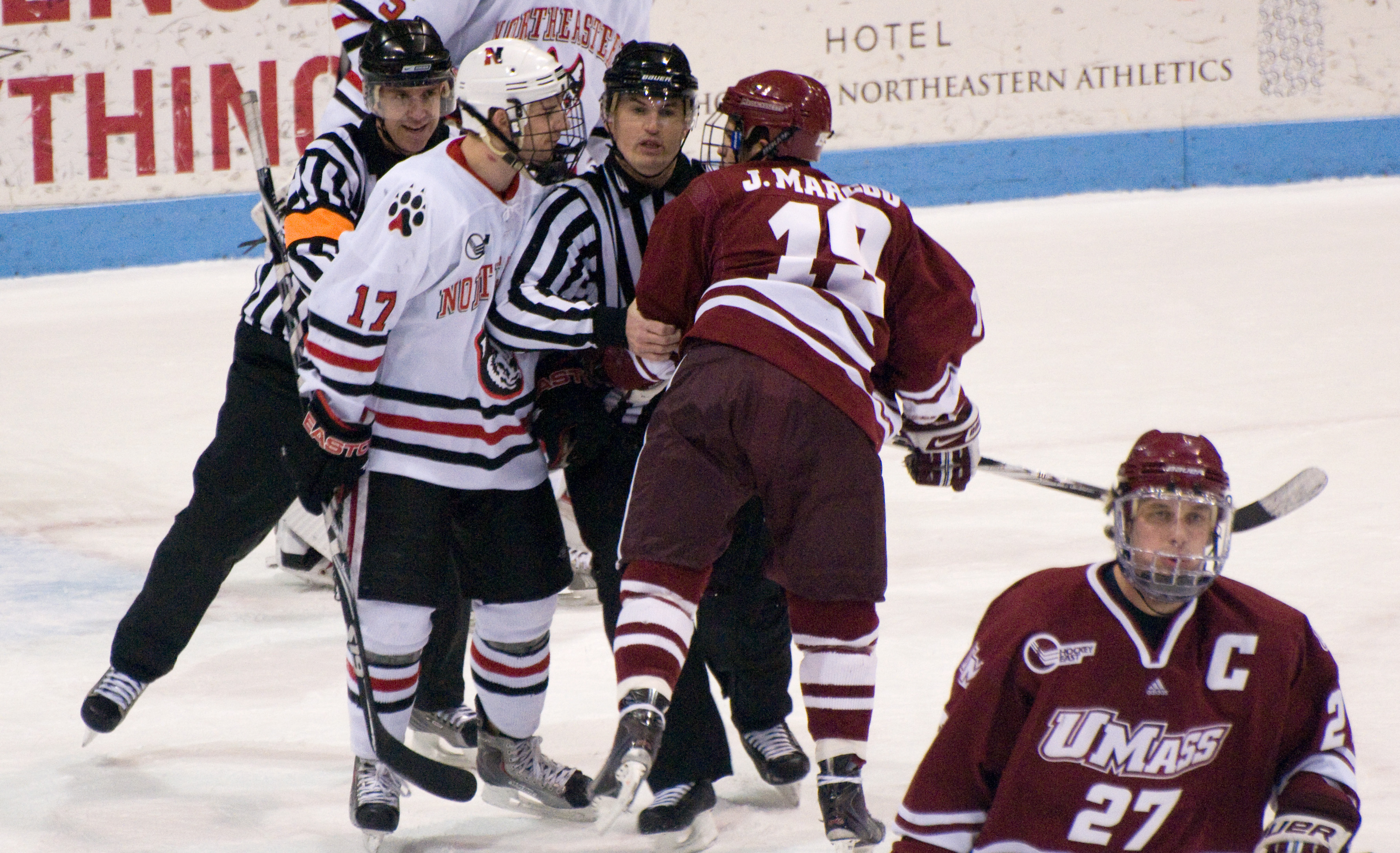 like the faces on the officials, Silva was later sent off with a game misconduct Hockey East: 1/10/2010 UMass @ Northeastern; UMass won 4-1